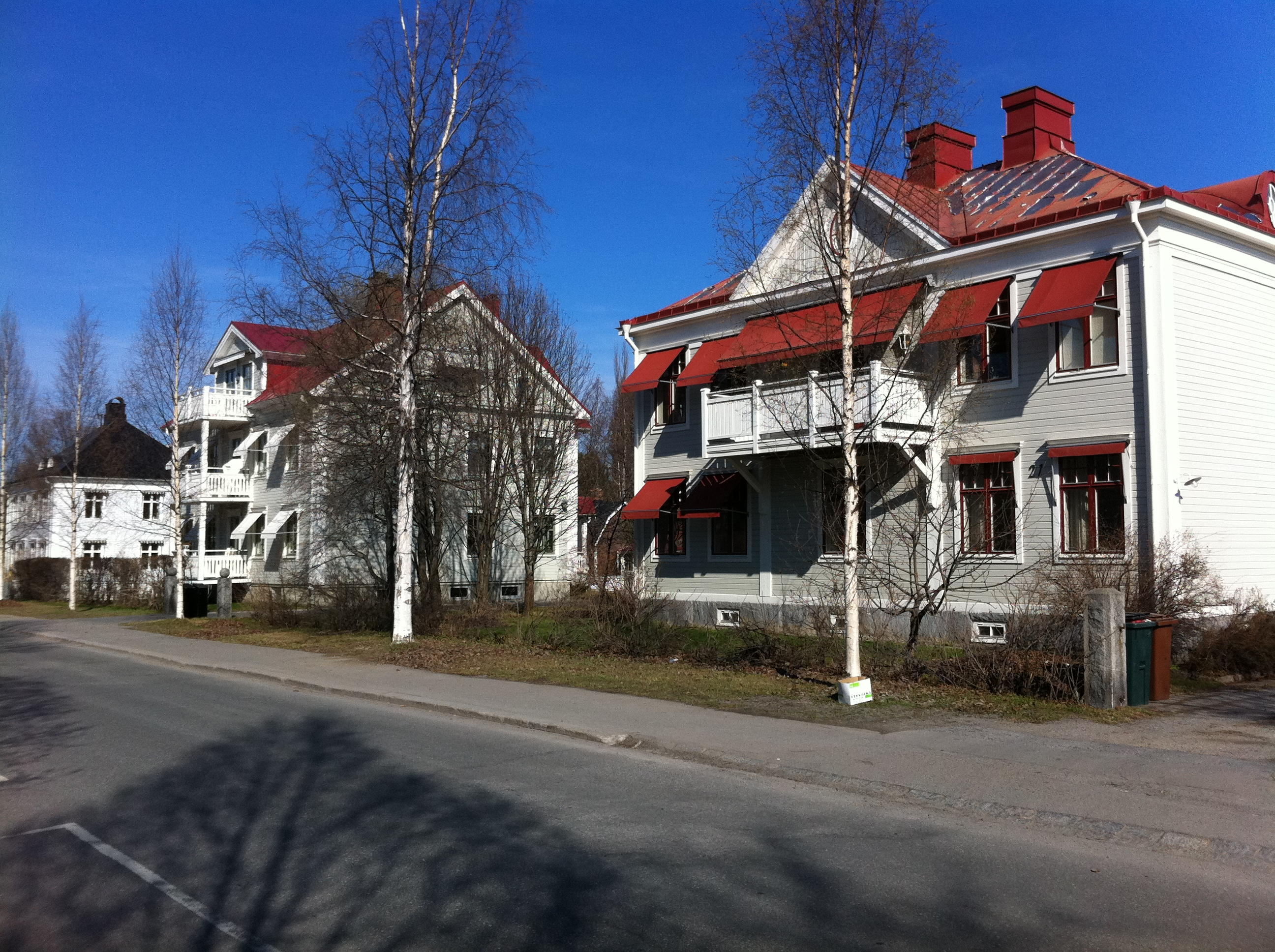 Storgatan. House by architect Birger Dahlberg. 1920s.